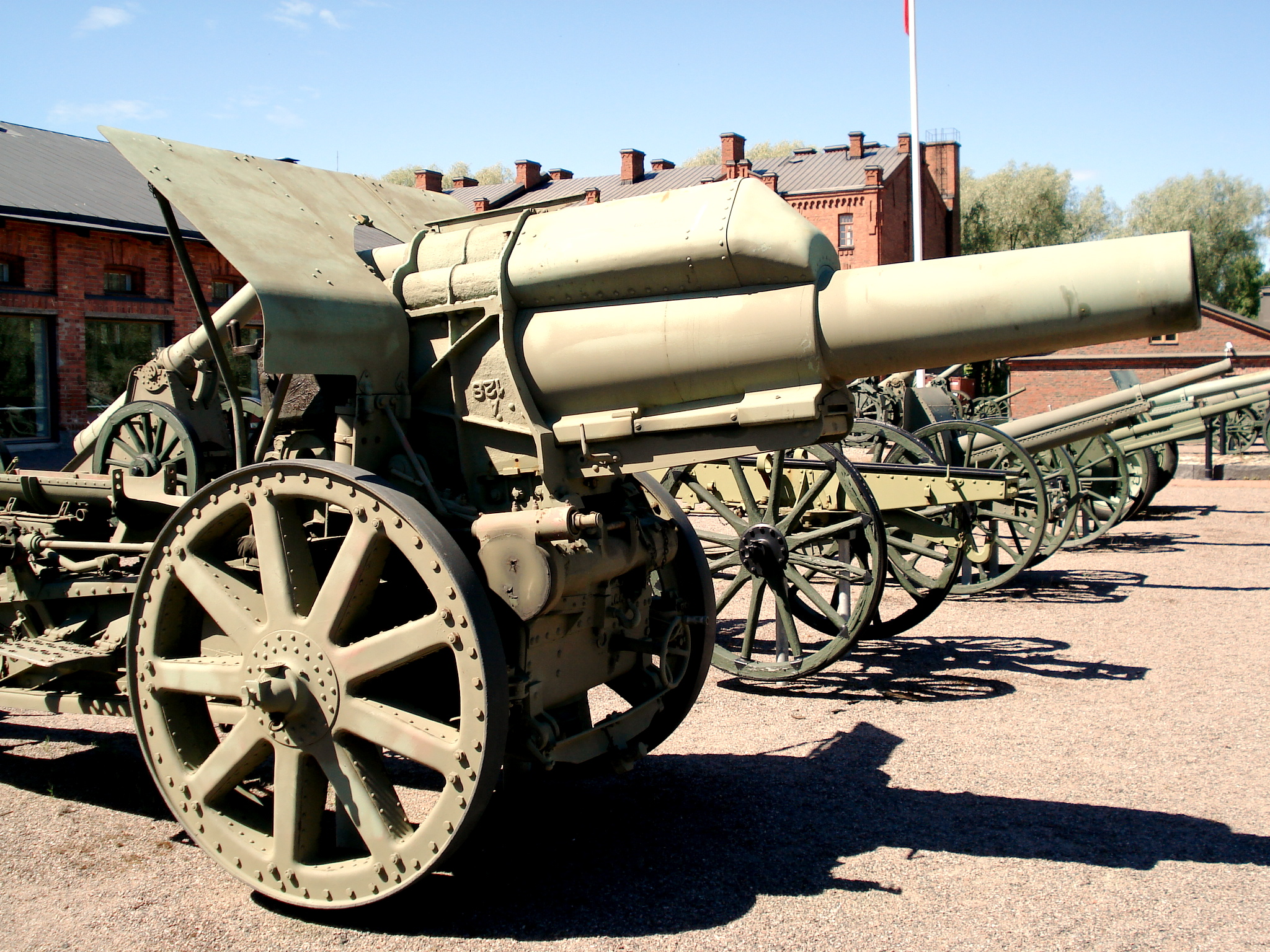 German Langer 21 cm mörser (mortar) Model 16, displayed in Hämeenlinna Finnish Artillery Museum. This example was used by Germany, then Sweden and Finland. Photo taken on June 18, 2006. Source: Photo by me, User:Balcer.